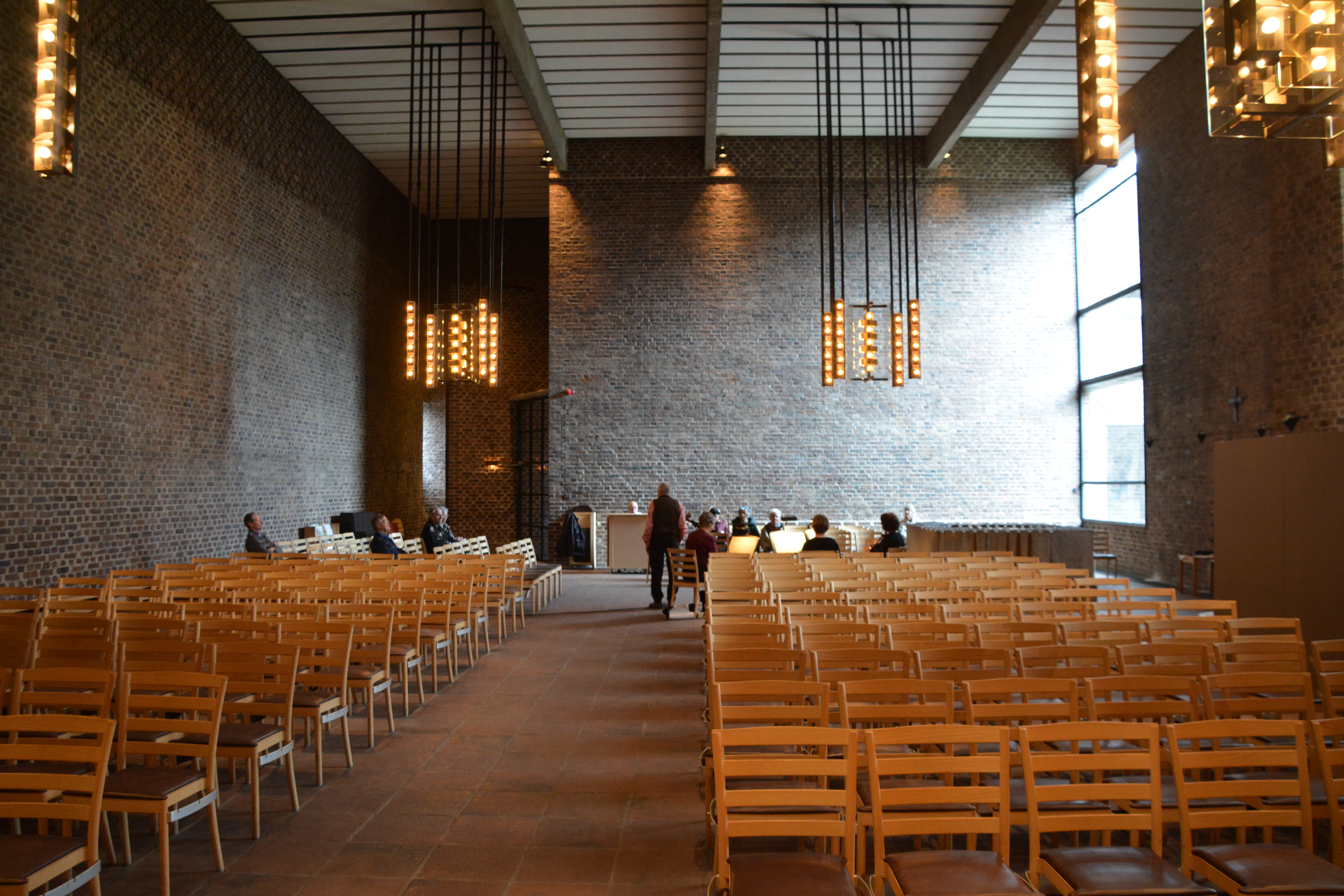 Kyrkorummet, Sankt Tomas kyrka, Vällingby